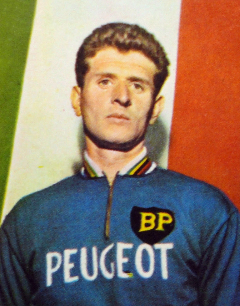 CAMPIONI DELLO SPORT 1969/70-n.211-BRACKE (BEL)-CICLISMO